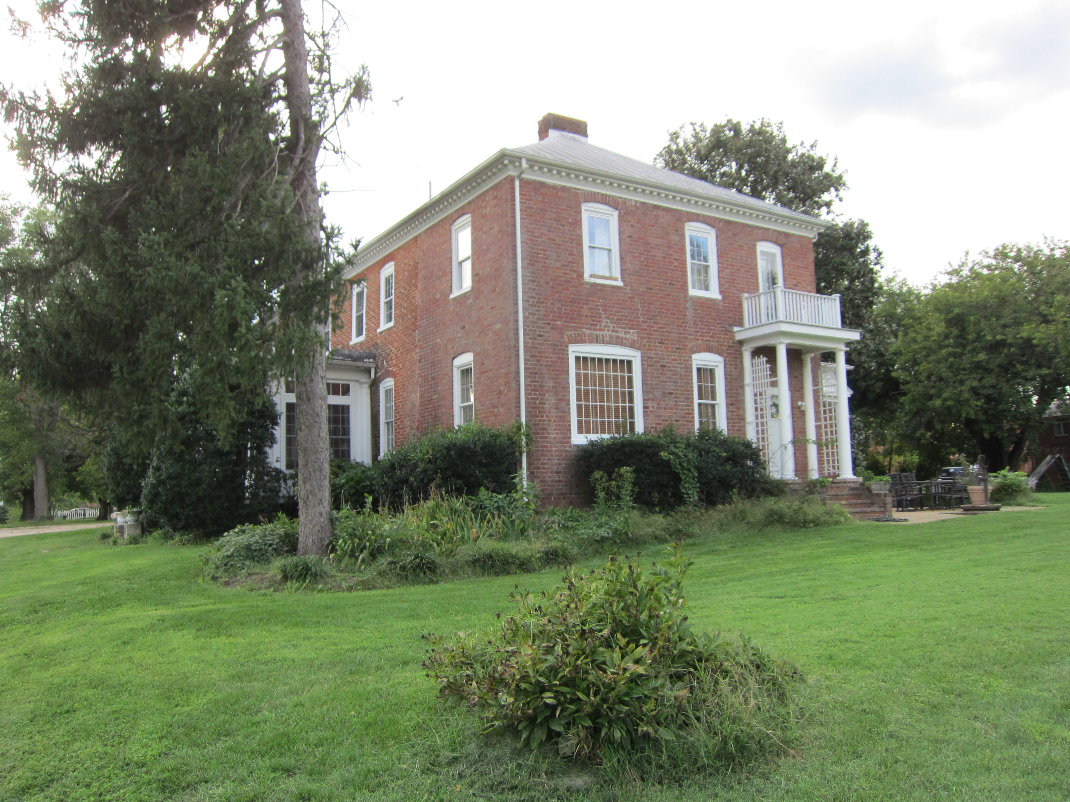 Henderson House, 3904 Fairfax Street, Dumfries, Virginia. Alexander Henderson built this home. Alexander Henderson was the father of Archibald Henderson, fifth Commandant of the Marine Corps.